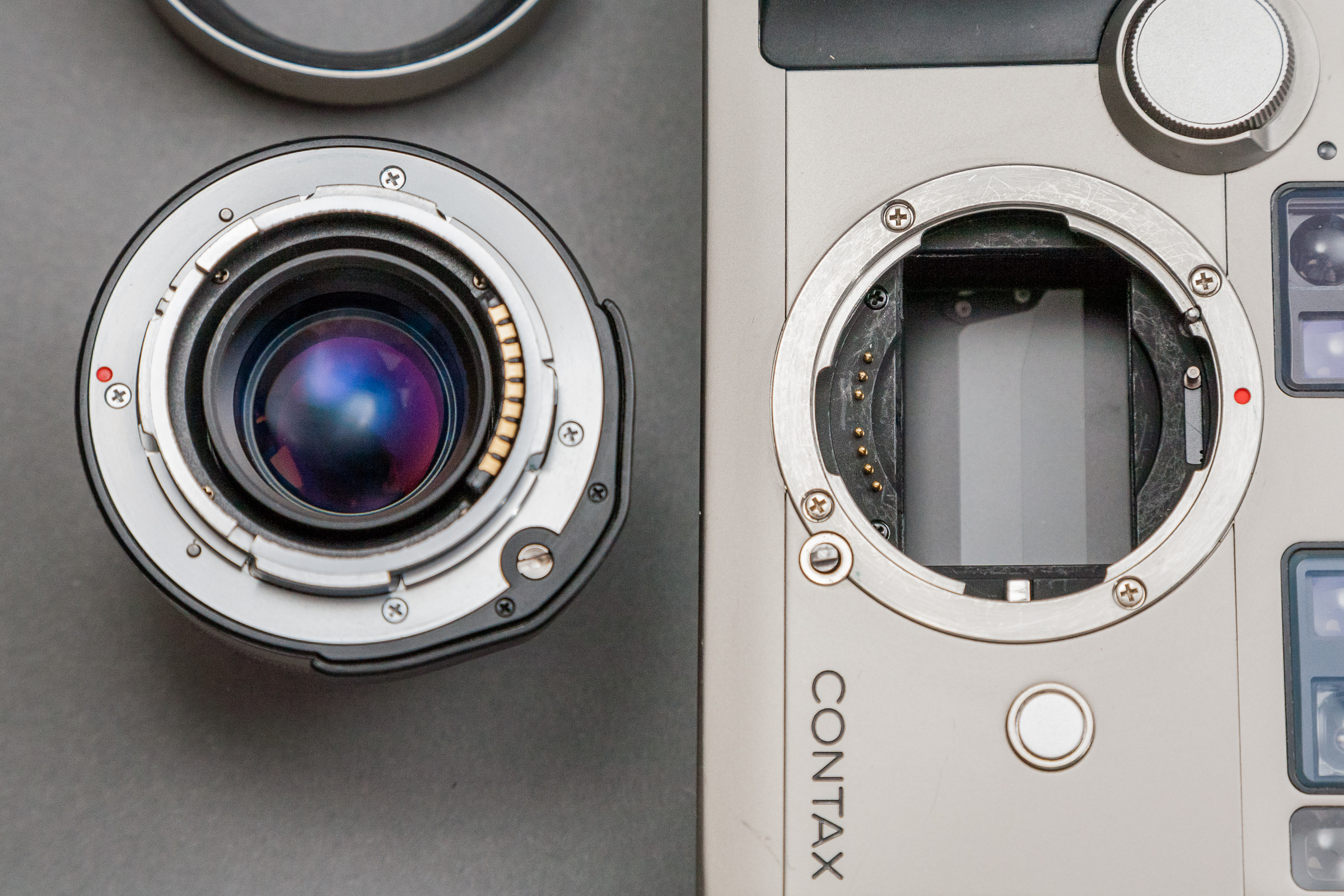 G Series Lens Mount on the Contax G2 camera body and Carl Zeiss Planer T 45mm lens